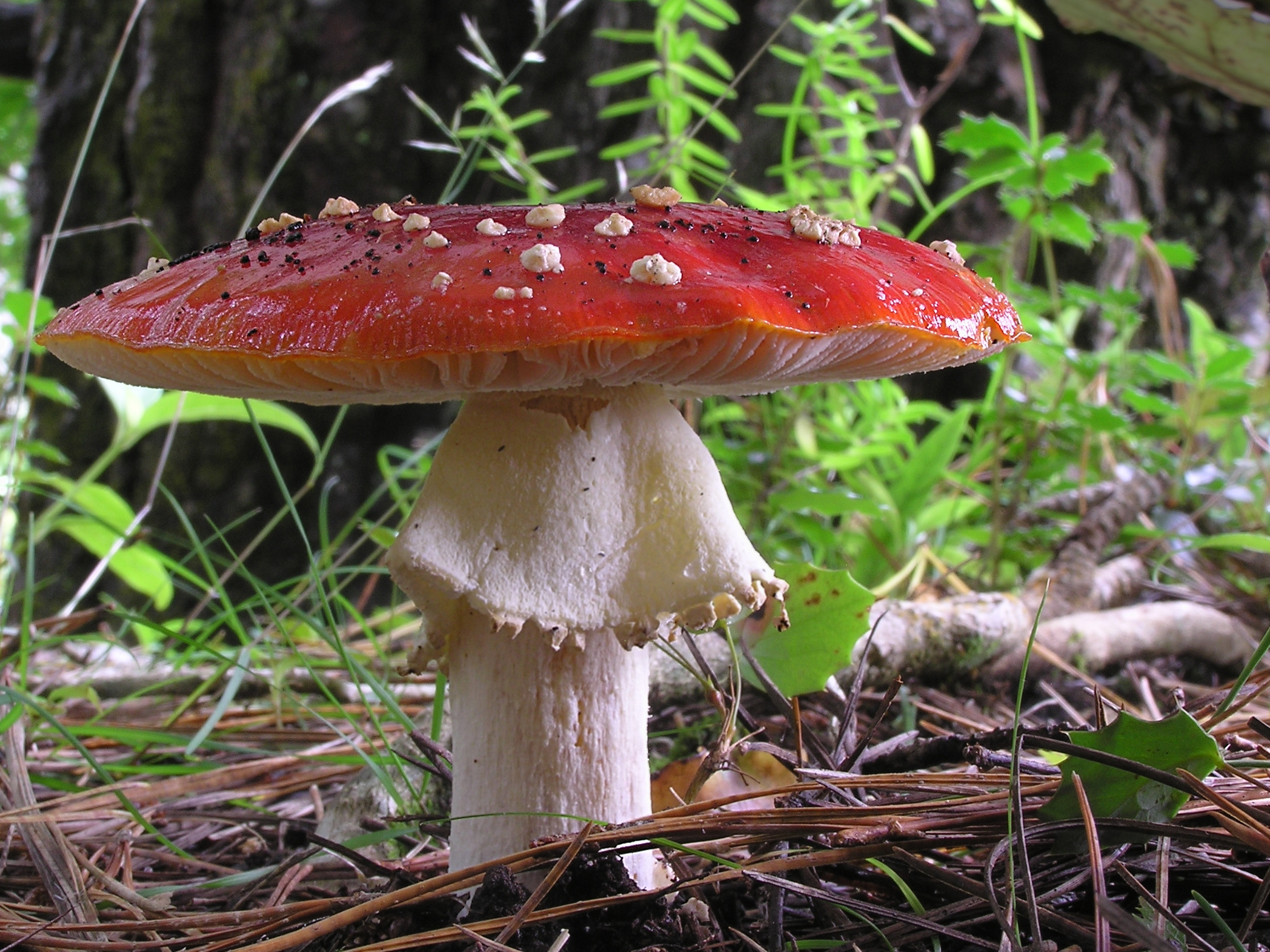 Fly Agaric mushroom growing under a stand of Pinus radiata trees, Wellington, New Zealand.